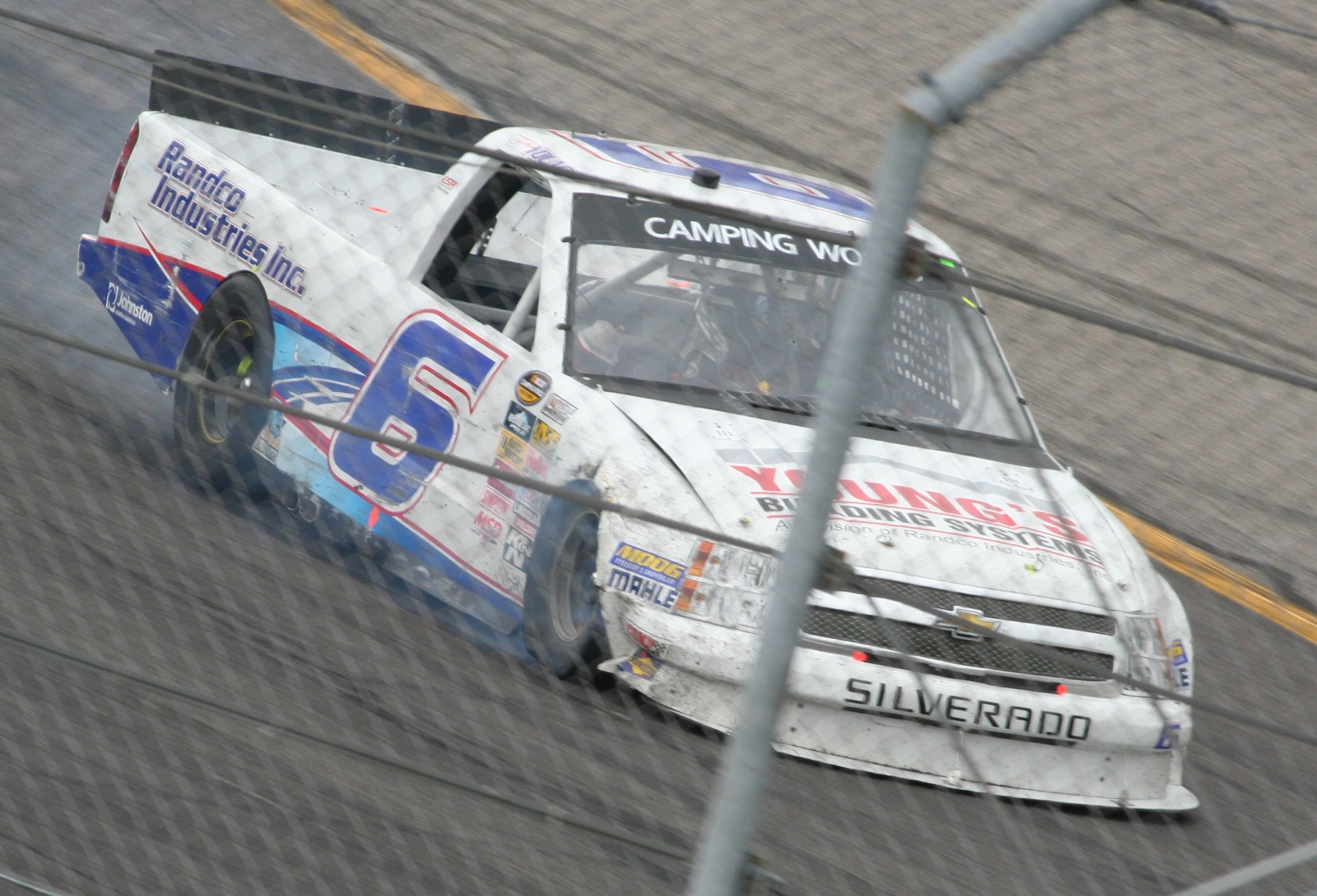 Tyler Young drives the No. 6 Randco Industries Chevrolet away from an accident during the North Carolina Education Lottery 200 at Rockingham Speedway, Rockingham, NC, April 14, 2013